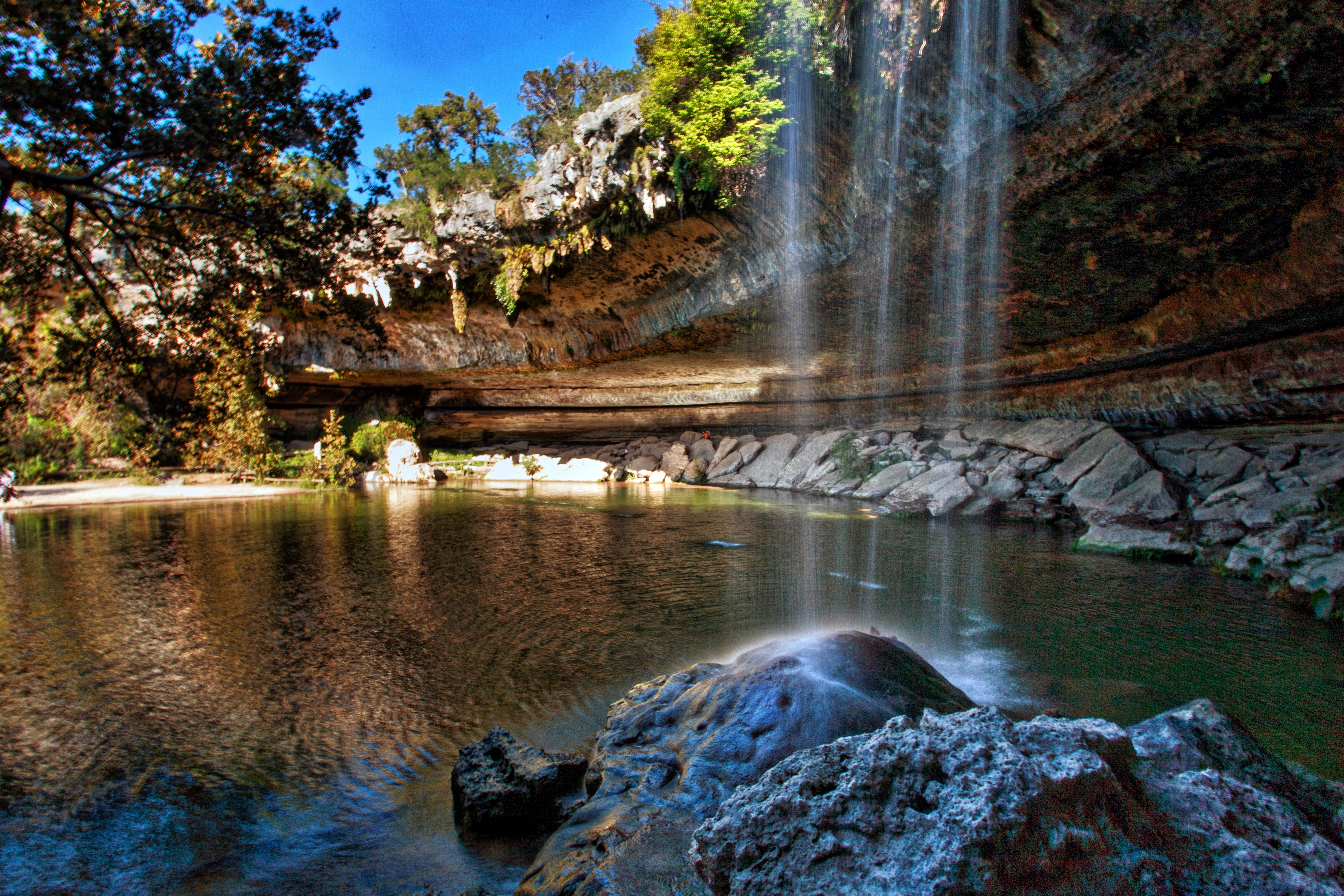 A 15-meter-tall waterfall exists due to the collapse of an underwater river's dome.